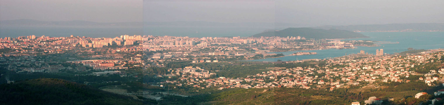 Solin and Split (8 km) seen from the Klis fortress.